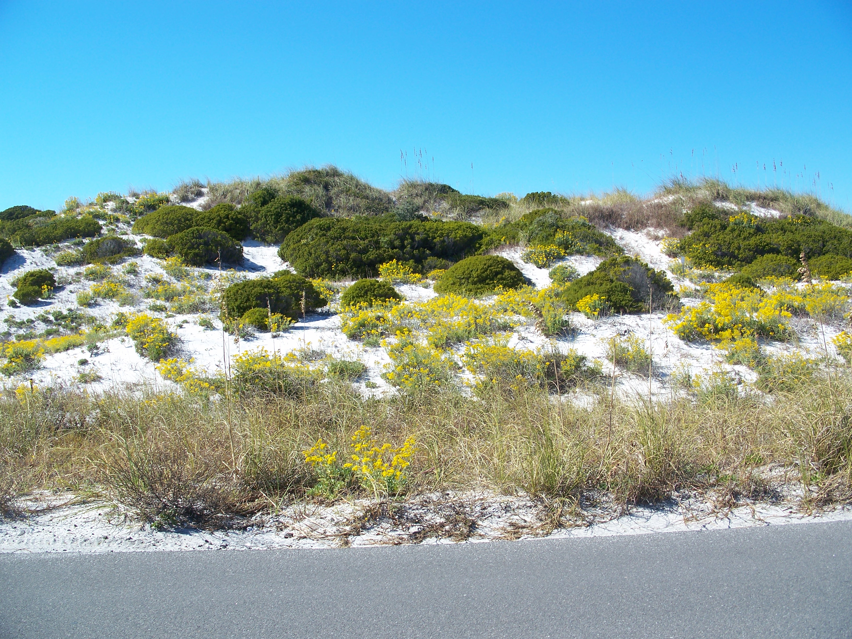 St. Joseph Peninsula State Park